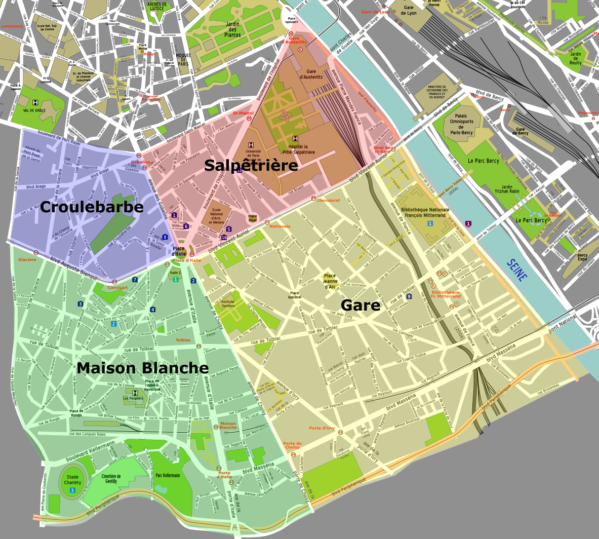 Map of administrative quartiers of Paris XIIIth arrondissement